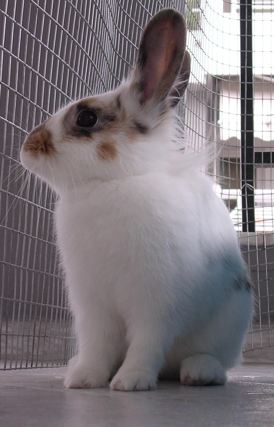 White rabbit